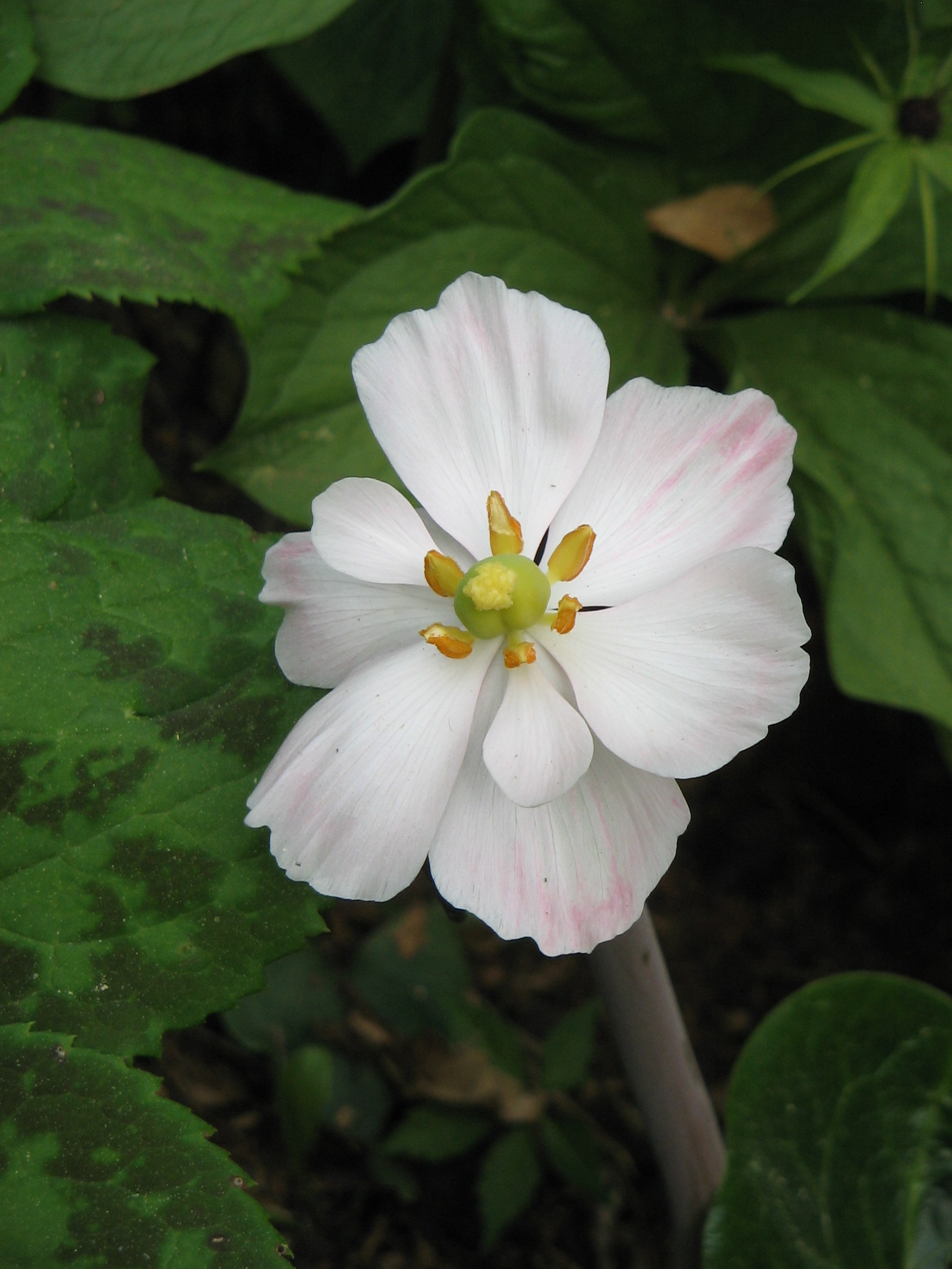 Podophyllum hexandrum